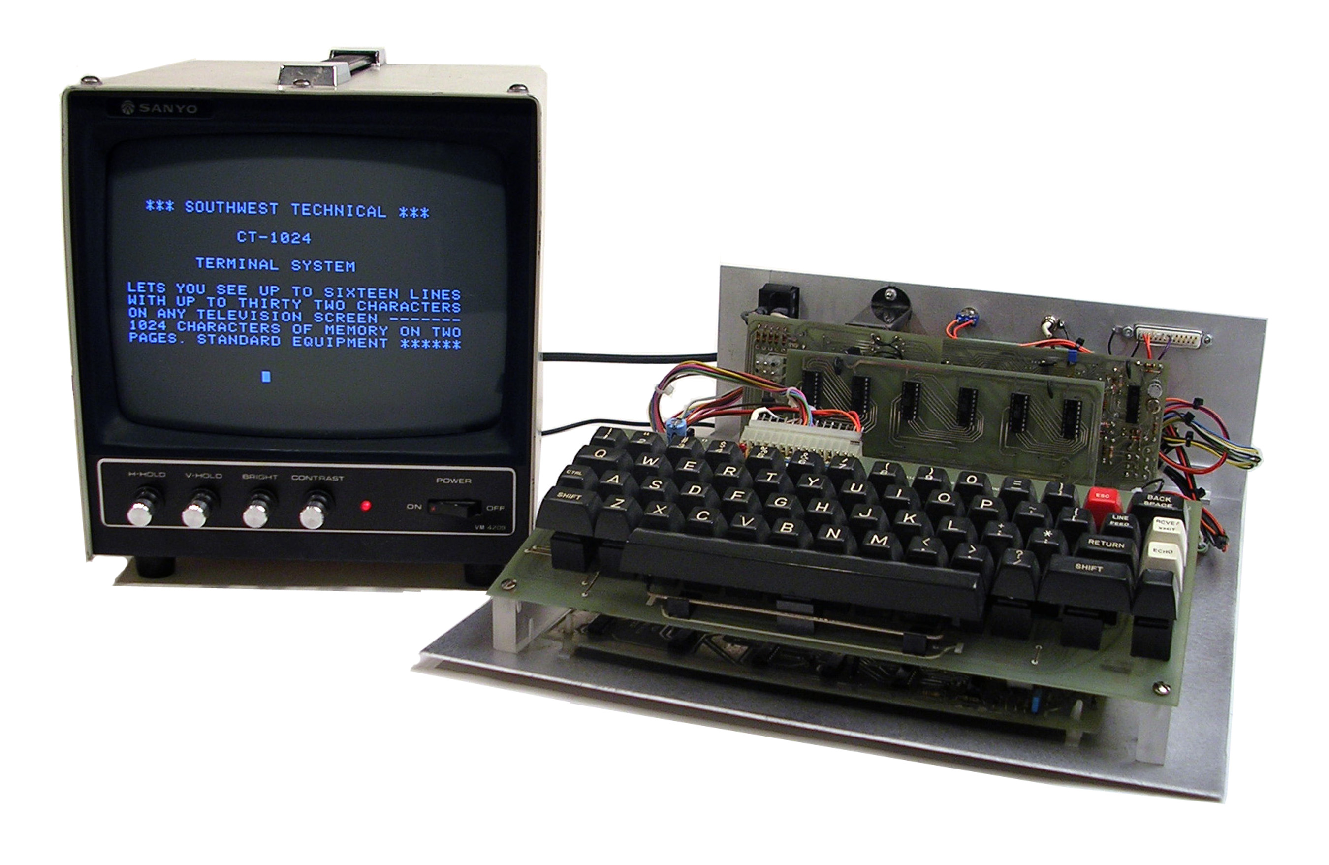 SWTPC CT-1024 Computer Terminal. This terminal would display 16 lines of 32 upper case characters on a television set. A complete kit with 1200 baud serial interface was $275 in January 1975. The terminal was sold by Southwest Technical Products Corp. of San Antonio, Texas as a kit to be assembled by hobbyists. It was featured in a series of articles in Radio Electronics magazine starting in February 1975. The magazine published a complete set of schematics and circuit board layouts. It was also known as the TV Typewriter II and was designed by Ed Colle. Don Lancaster designed the original TV Typewriter that was featured in the September 1973 issue of Radio Electronics.